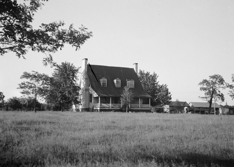 Park Gate, State Route 653, Brentsville vicinity (Prince William County, Virginia) cropped, HABS VA,76-BRENT.V,2-1 This file comes from the Historic American Buildings Survey (HABS), Historic American Engineering Record (HAER) or Historic American Landscapes Survey (HALS). These are programs of the National Park Service established for the purpose of documenting historic places. Records consist of measured drawings, archival photographs, and written reports. When reusing please credit: Library of Congress, Prints & Photographs Division, VA-555 This tag does not indicate the copyright status of the attached work. A normal copyright tag is still required. See Commons:Licensing for more information. This work is in the public domain in the United States because it is a work prepared by an officer or employee of the United States Government as part of that person’s official duties under the terms of Title 17, Chapter 1, Section 105 of the US Code. See Copyright. Note: This only applies to original works of the Federal Government and not to the work of any individual U.S. state, territory, commonwealth, county, municipality, or any other subdivision. This template also does not apply to postage stamp designs published by the United States Postal Service since 1978. (See § 313.6(C)(1) of Compendium of U.S. Copyright Office Practices). It also does not apply to certain US coins; see The US Mint Terms of Use. This file has been identified as being free of known restrictions under copyright law, including all related and neighboring rights.